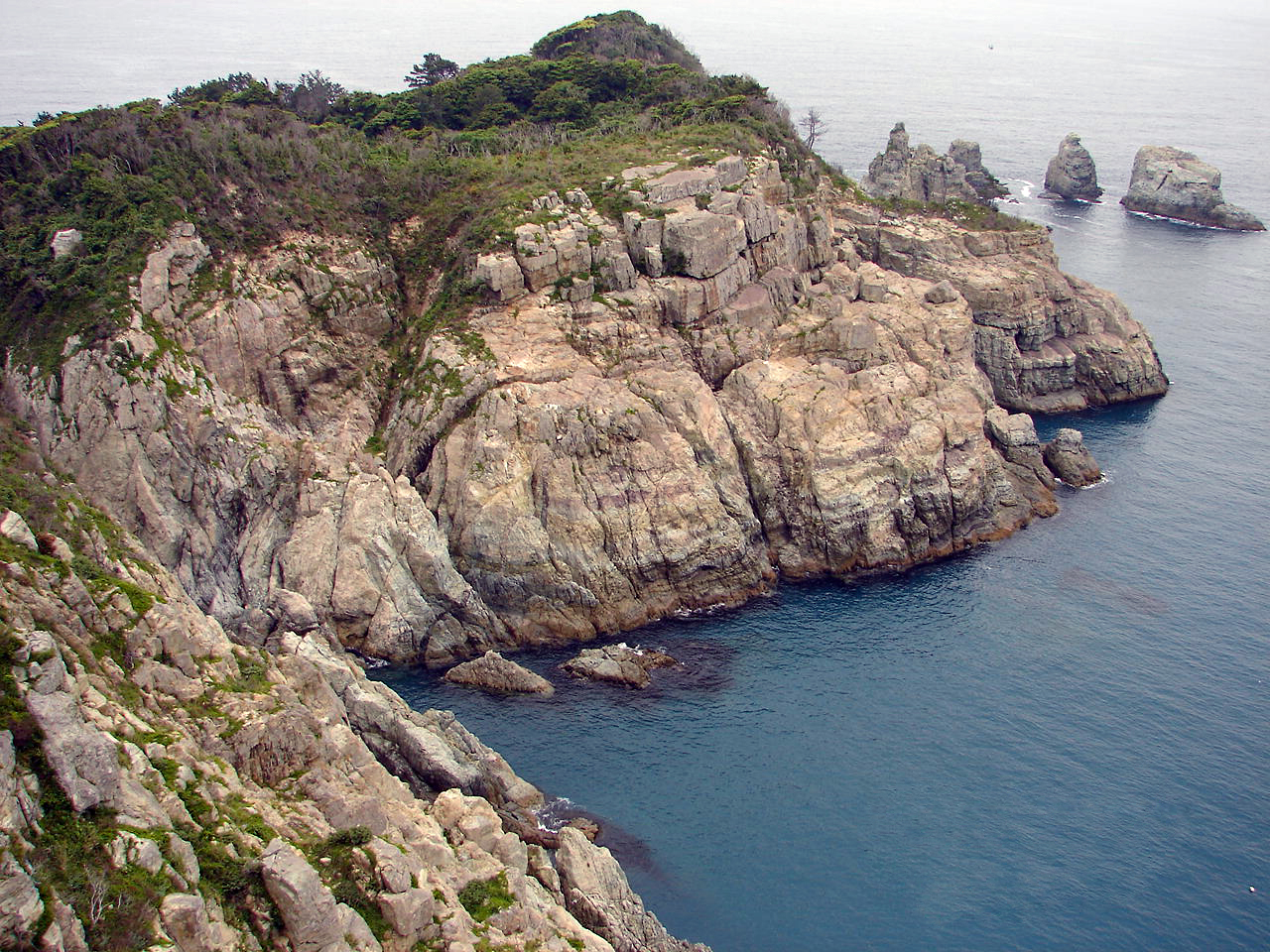 Oedo is a western-style island botanical garden built 1969 by Lee Chang-ho and his wife, in Hallyeo Haesang National Park (national marine park), in what is part of Geoje city, Gyeongsangnam-do, South Korea. The island is home to more than 3,000 plant species, many quite rare, like Agave Americana, Rose of Sunshine, Windmill Palms, C.peruvianus (a kind of cactus), and includes many other subtropical plants, like cactus, palm trees, gazania, eucalyptus, bottlebrush bush, New Zealand flax, and agave. Oedo has a coastal climate with mild subtropical weather.